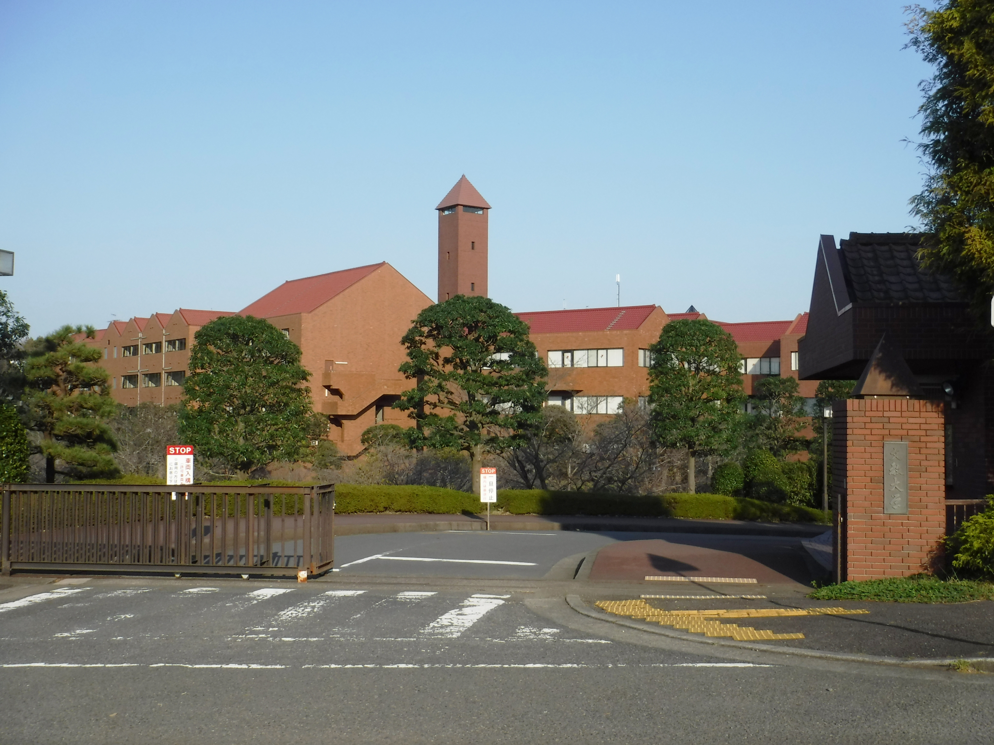 Main entrance to Bunkyo University Shonan Campus located in Chigasaki, Kanagawa, Japan.